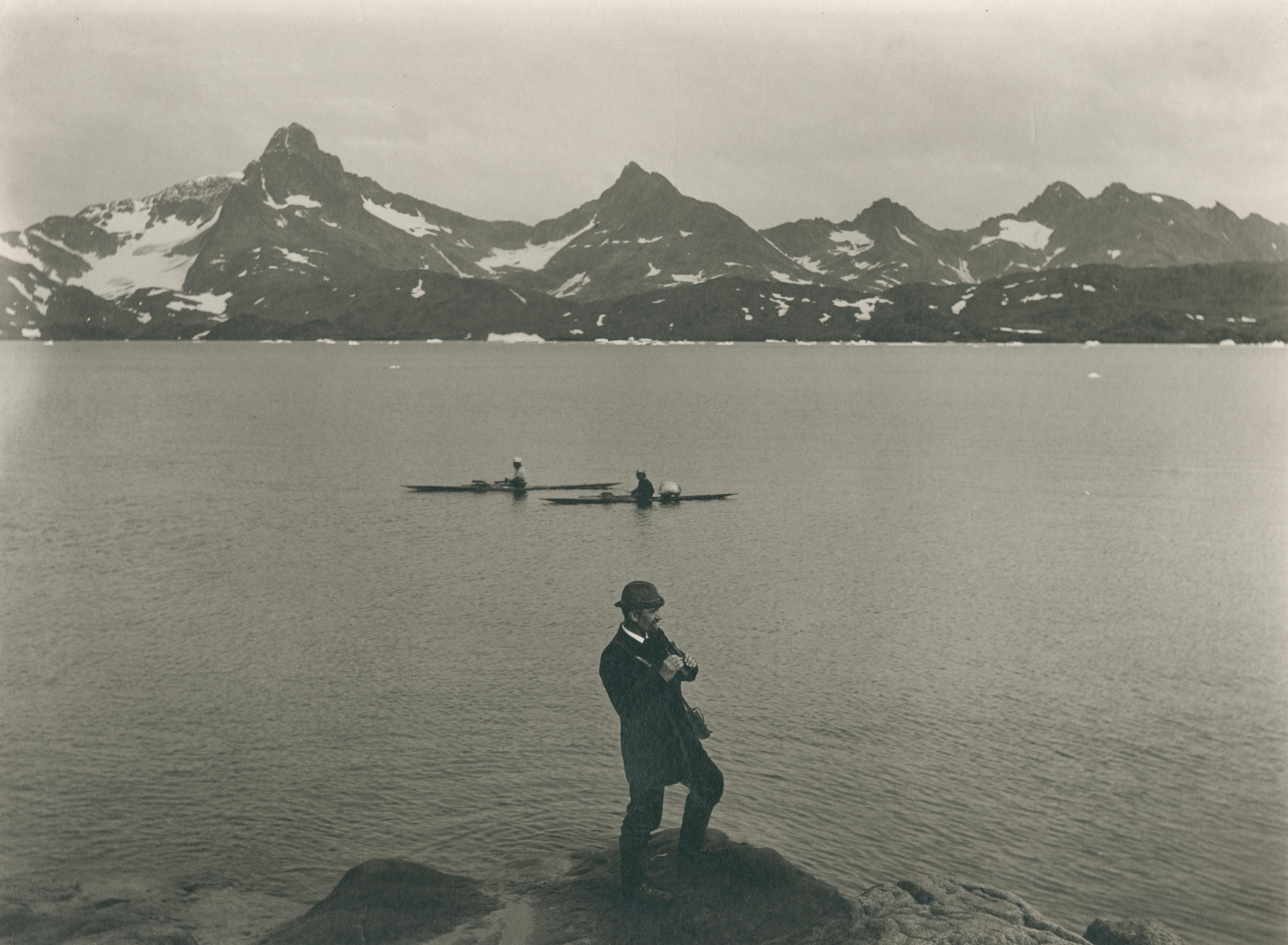 View over the Tasiusaq-bay. The photographer in the foreground.